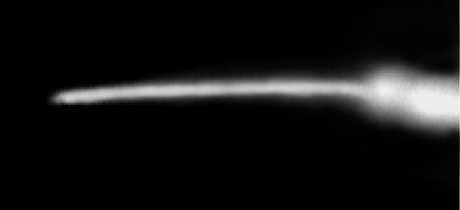 Sensory cilium from nematode C. elegans